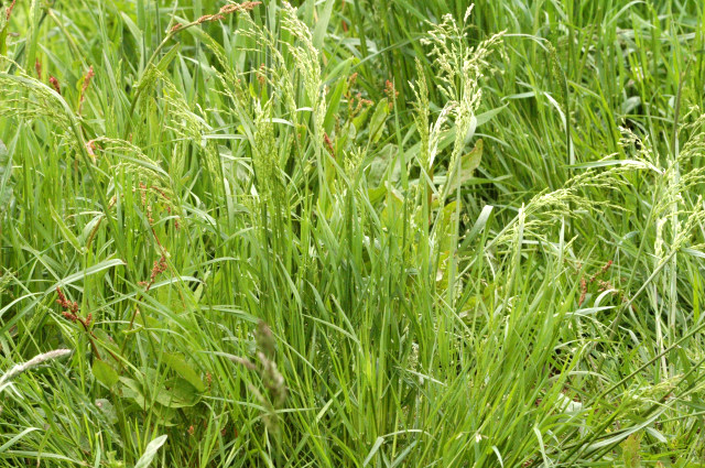 Picture taken in Commanster, Belgian High Ardennes . Species: Poa compressa